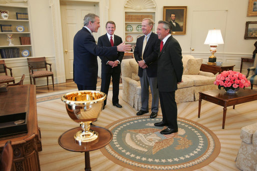 As honorary chairman of the 2005 Presidents Cup, President George W. Bush shares a moment with Cup co-captains Jack Nicklaus, center, Gary Player, right, and Tim Finchem, PGA Tour director, Wednesday, April 13, 2005, in the Oval Office. The Presidents Cup, played during non-Ryder Cup years, is scheduled for September at the Robert Trent Jones Golf Club on Lake Manassas in Prince William County, Virginia.